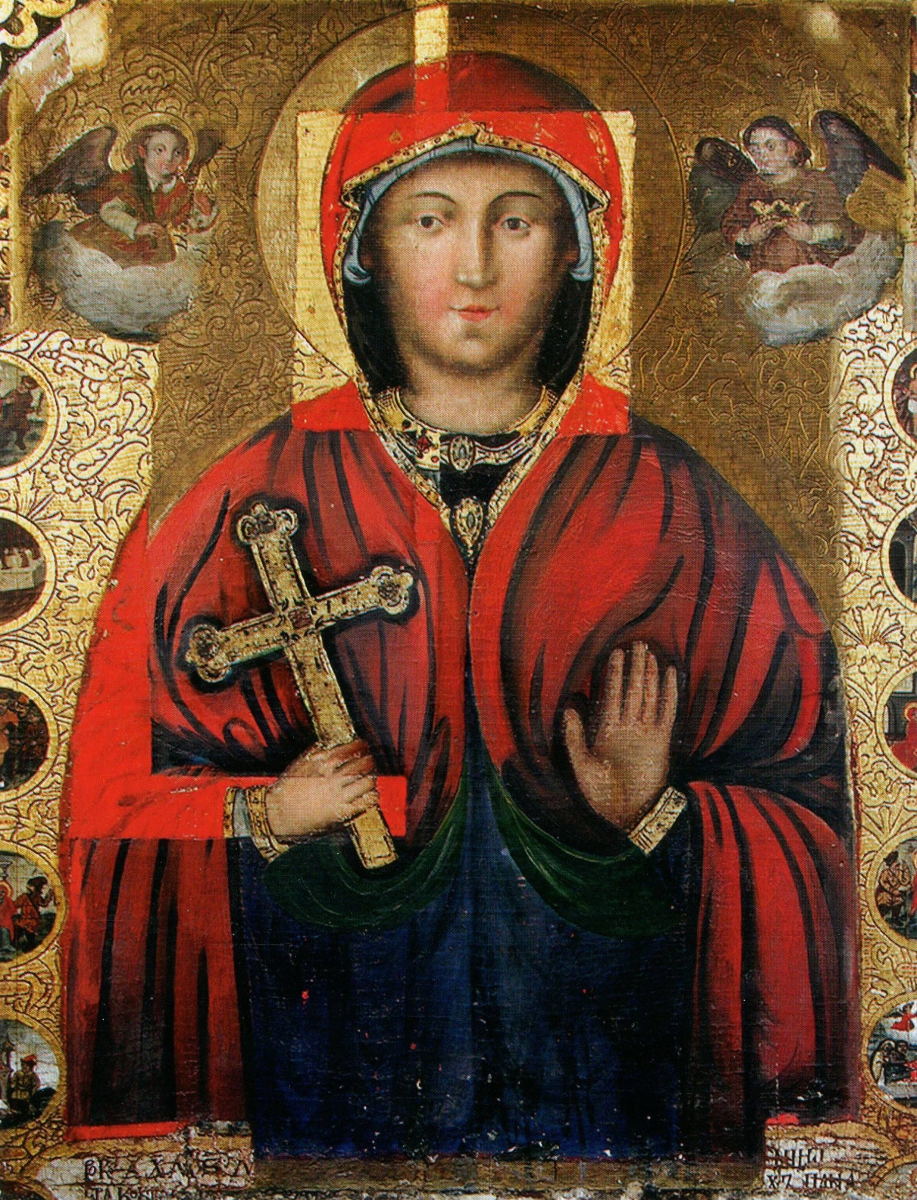 ST. PARASKIEVA. 1642. Wood, tempera. St. Nicolas' Church, Pieski village Church, Masty district, Grodna region. In the process of restoration (A. Tarasik).